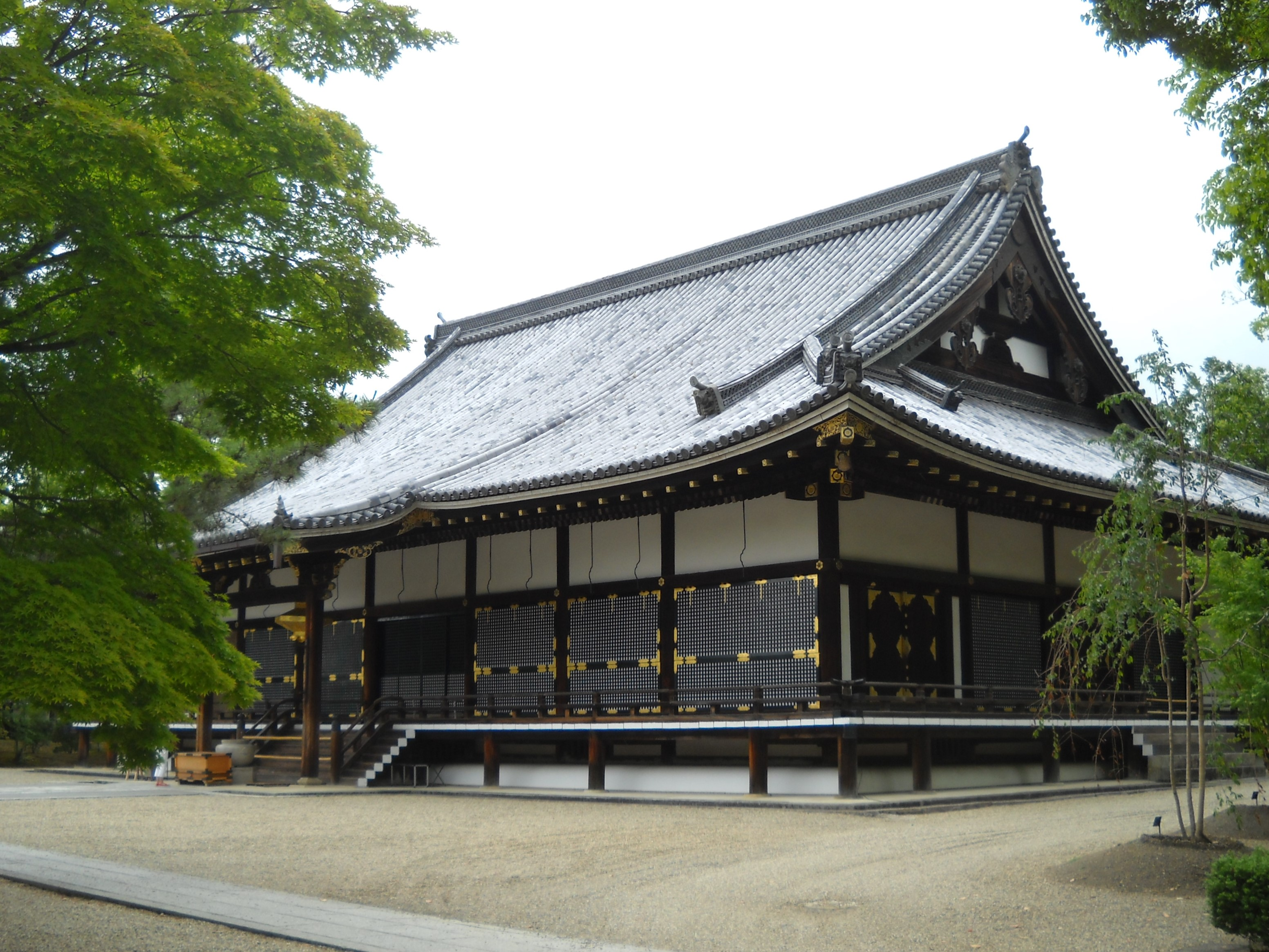 Ninna Temple Golden Hall in Kyoto.